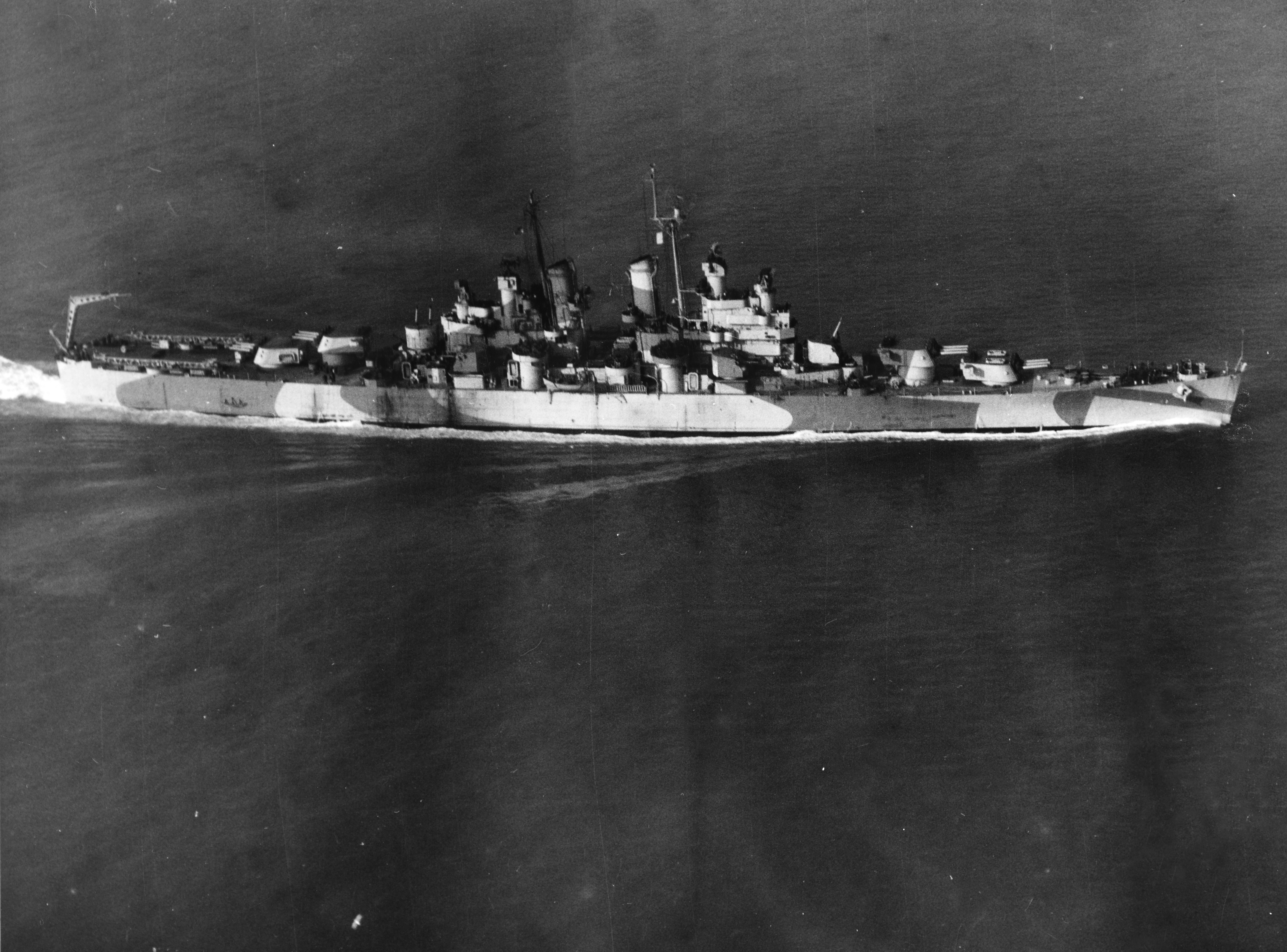 The U.S. Navy light cruiser USS Topeka (CL-67) underway off Boston, Massachusetts (USA) on 1 January 1945. She is painted in Camouflage Measure 32 or 33, Design 24D. The photo was taken by a blimp of squadron ZP-11.